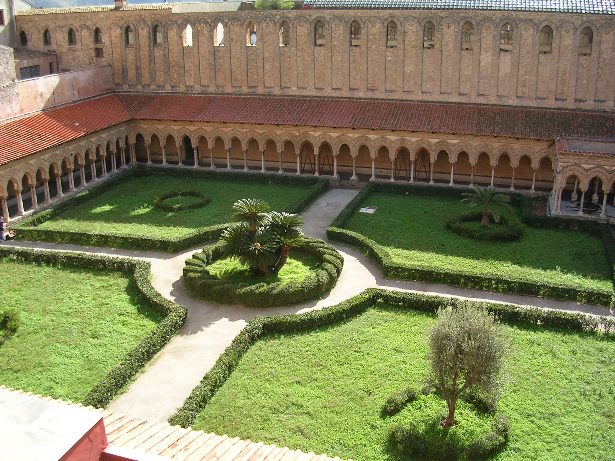 Cloister of Duomo di Monreale - Sicily - Italy, 1200 CE, Norman style